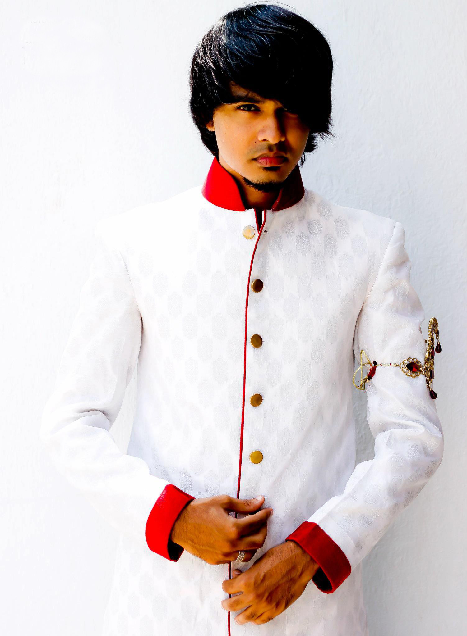 Profile picture of aamir tameem